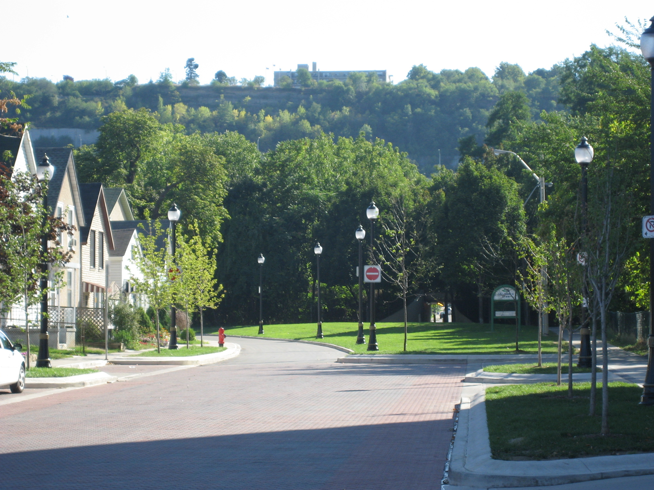 Corner of Hunter Street East & Ferguson, looking South towards the Niagara Escarpment, Hamilton